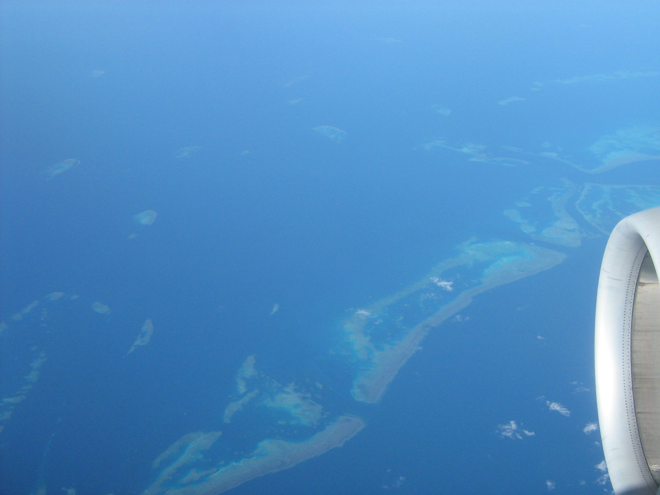 The Great Barrier Reef is clearly visible from aircraft flying over it.